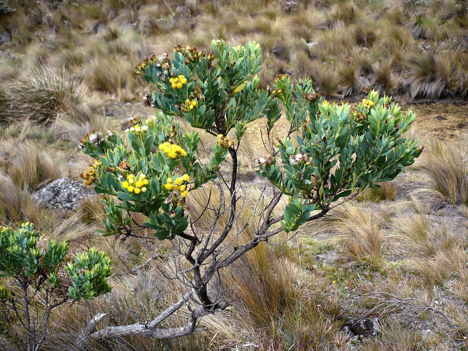 Pentacalia vacciniodes in El Cajas, Ecuador